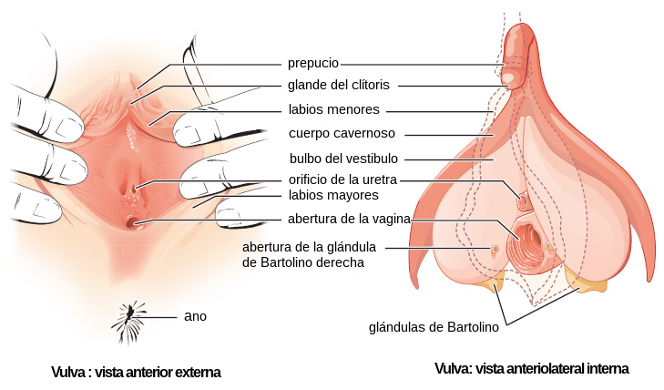 Translation in Spanish and minor corrections of the file in commons referenced as Illustration from Anatomy & Physiology, Connexions Web site. Jun 19, 2013.